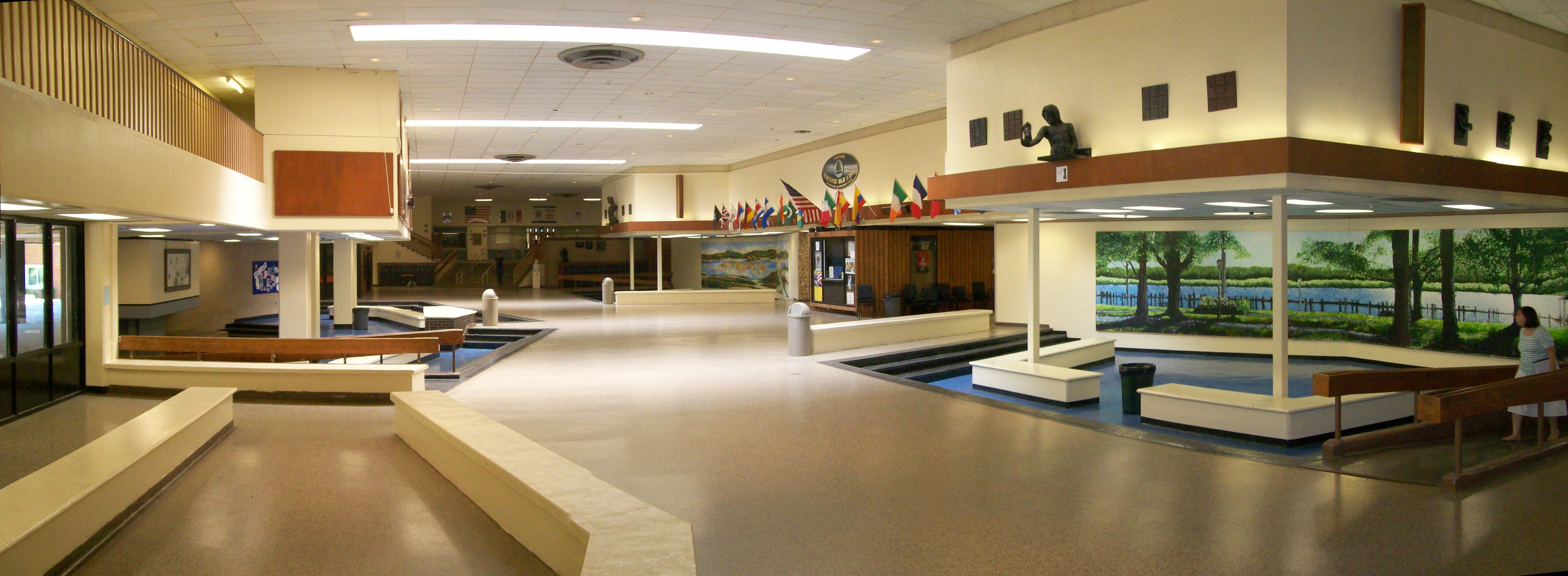 The Commons within Northport High School in Northport, New York